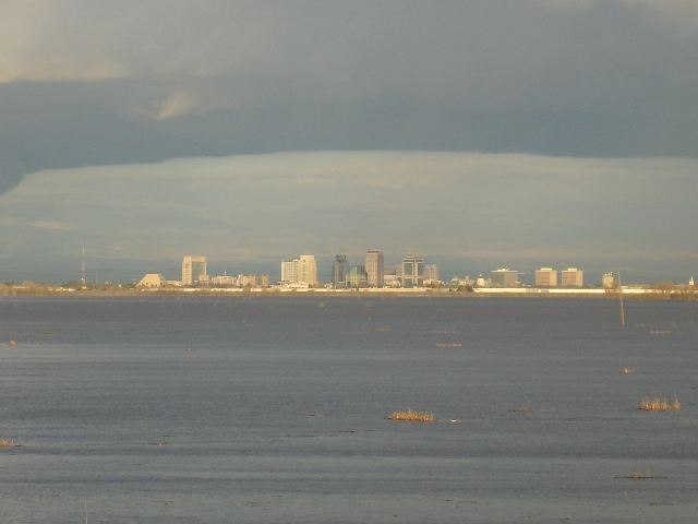 Flooded Yolo Bypass with Sacramento skyline in background, March 2006.